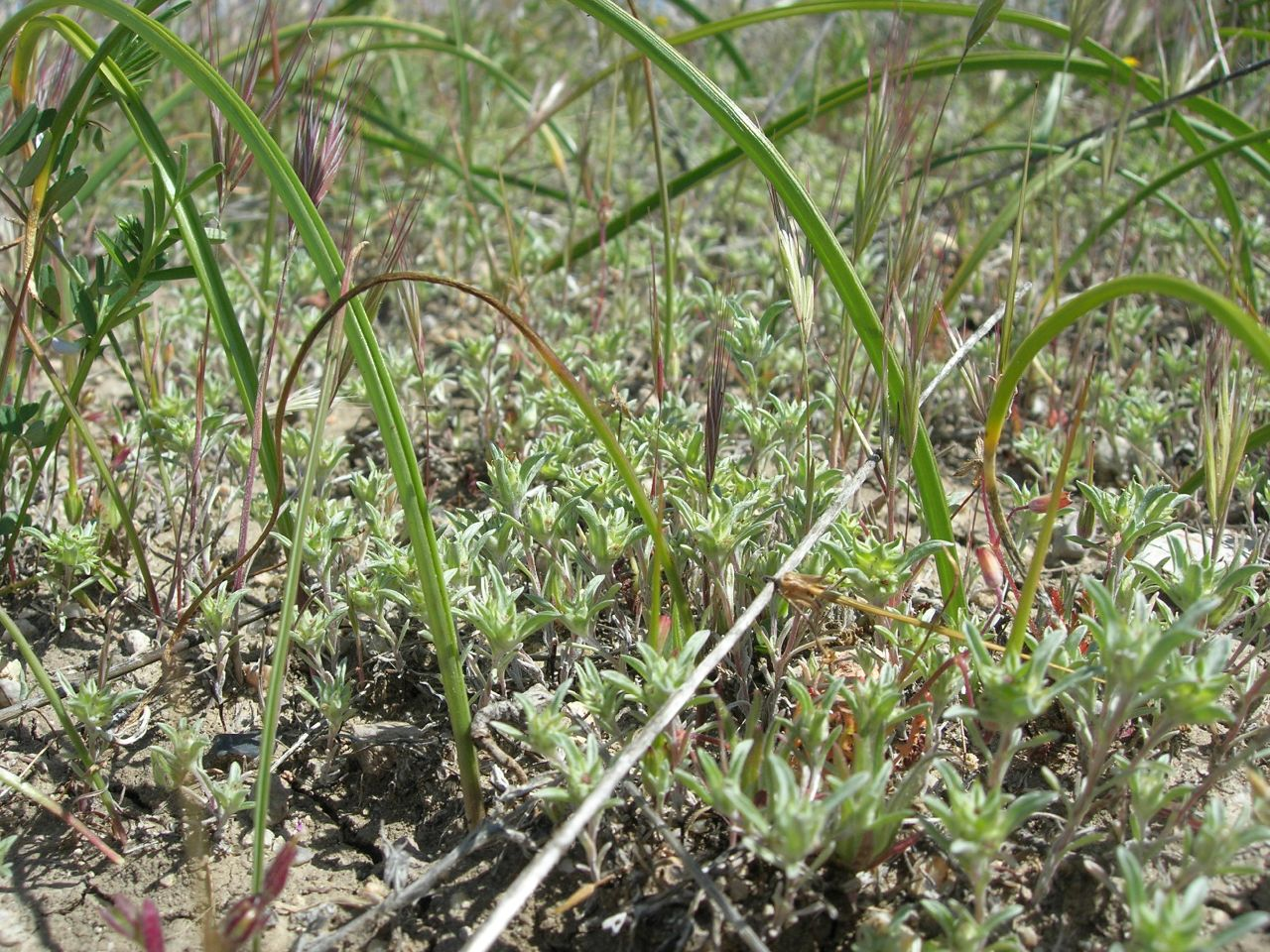 Ancistrocarphus filagineus and Dichelostemma sp., western Mojave Desert, Los Angeles County, California